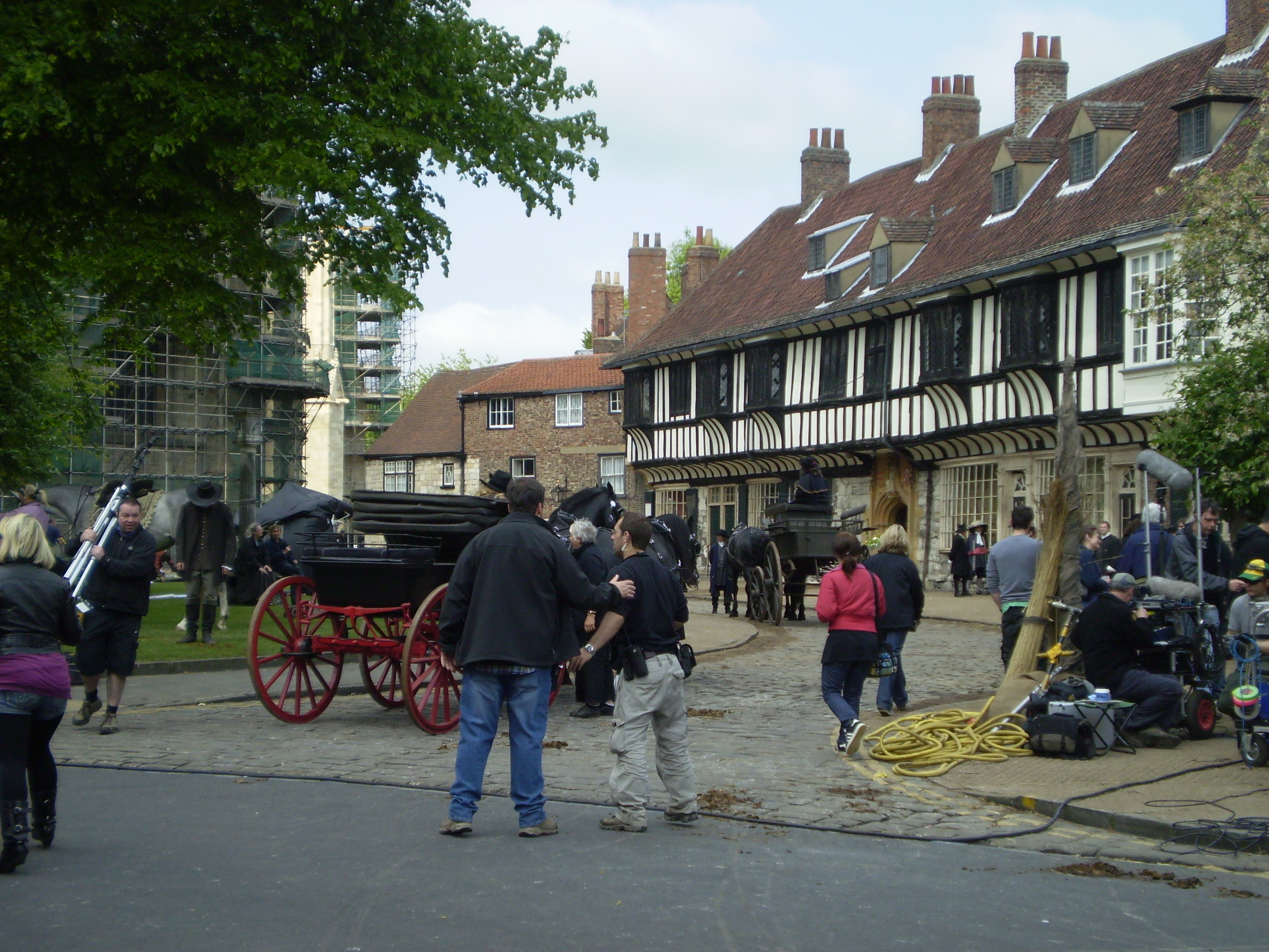 The filming of NBC television series Crusoe at St. Williams College, York, England.